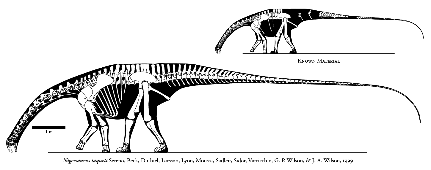 Nigersaurus taqueti skeletal reconstruction by Mike Hanson.